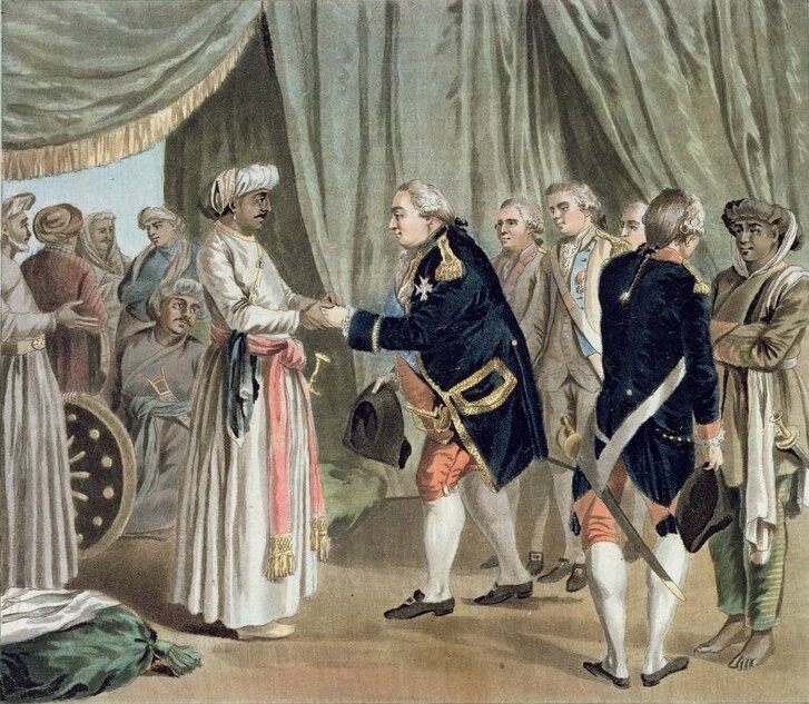 Jean Baptiste Morret: Meeting of Pierre-André de Suffren de Saint Tropez (1729-1788) and Haider Ali (1728-1782), engraving, France.[1]